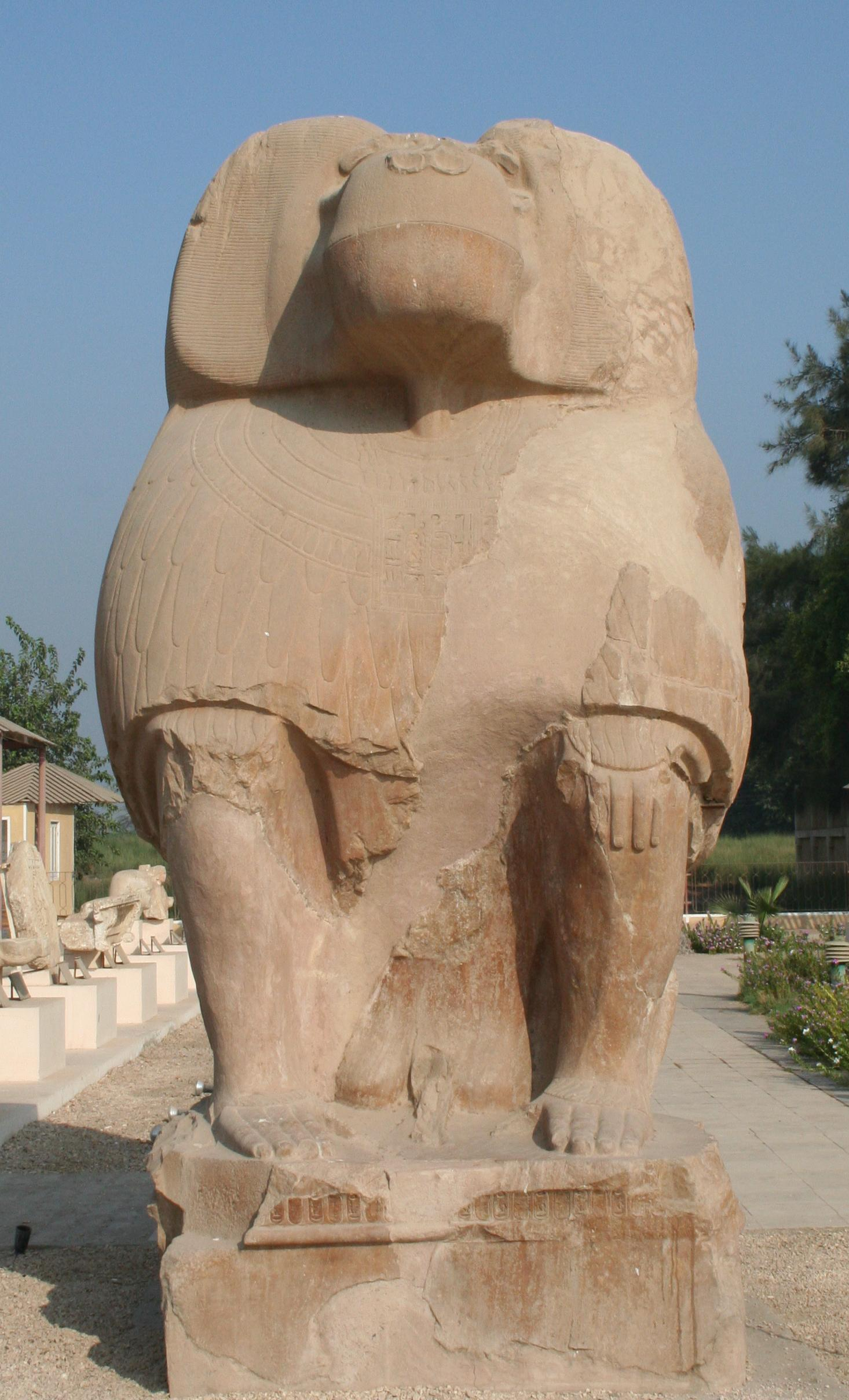 Colossal Statue of Thoth from Hermopolis; Temp. Amenhotep III, 18th Dynasty